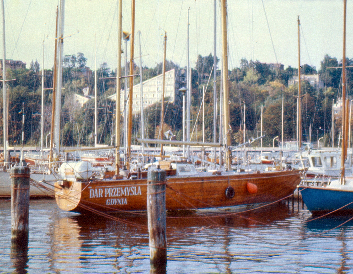 SY Dar Przemyśla in Gdynia port